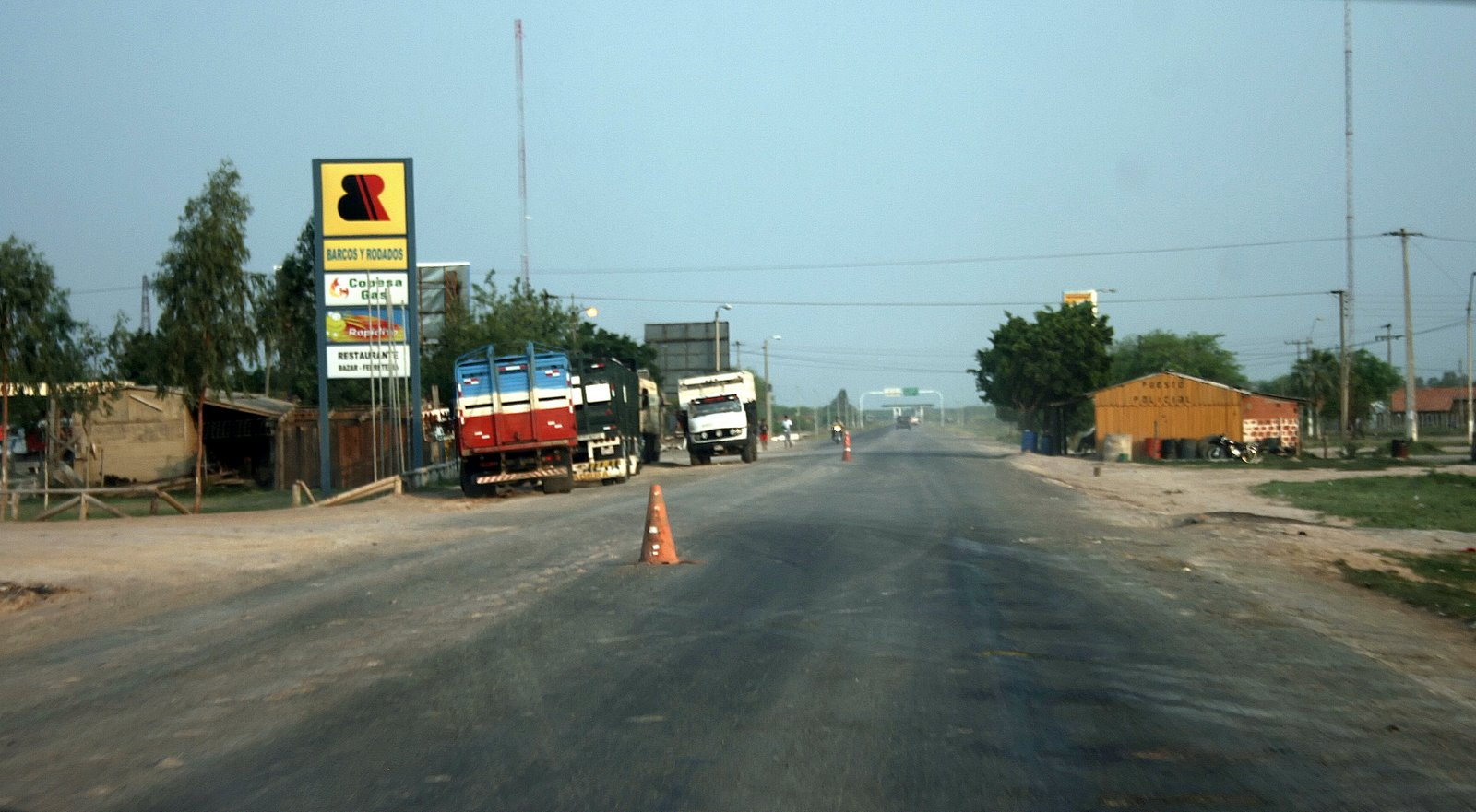 Transchaco highway at Pozo Colorado, Presidente Hayes Department, Paraguay.